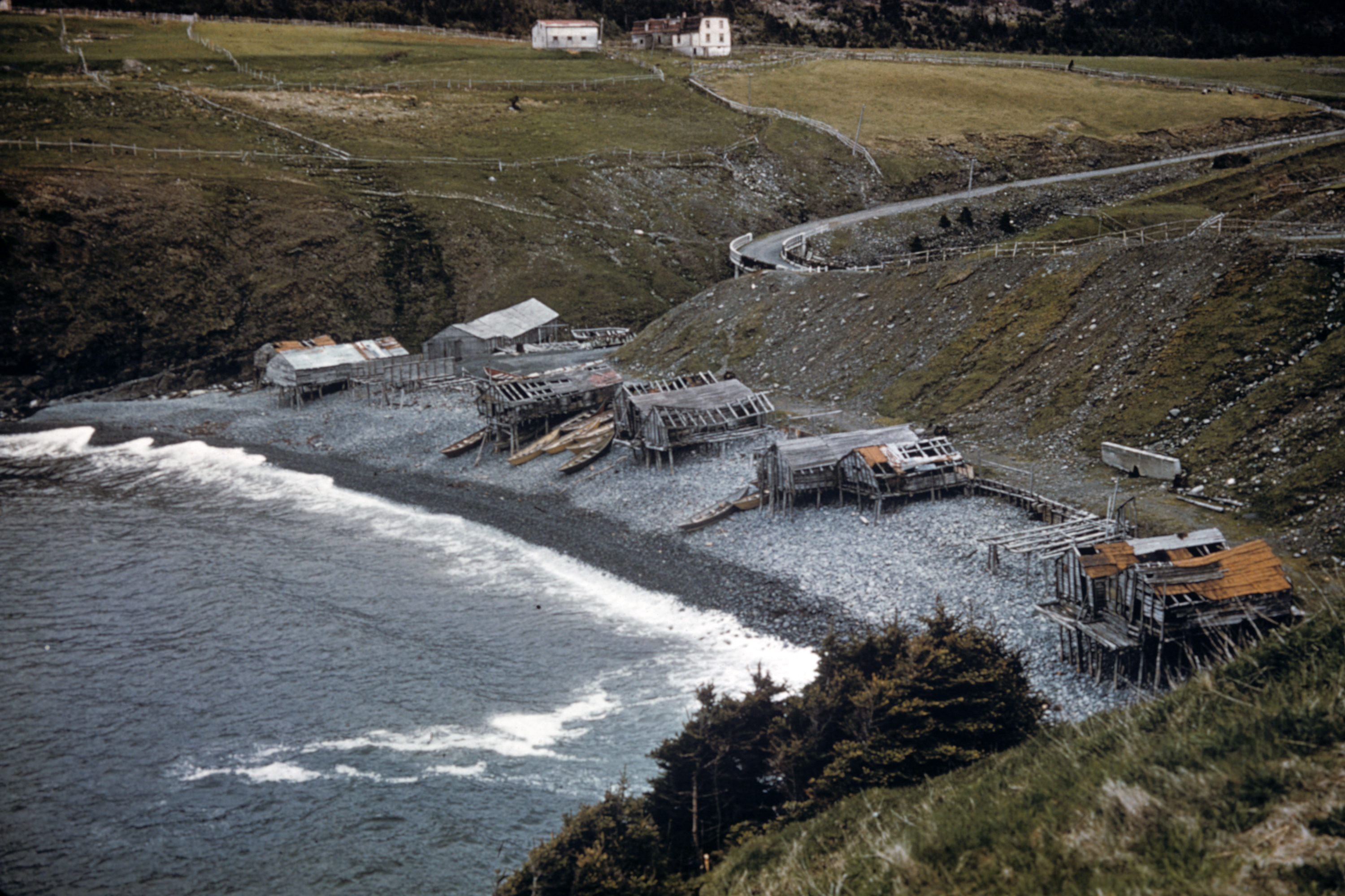 Photo of Outer Cove, Newfoundland